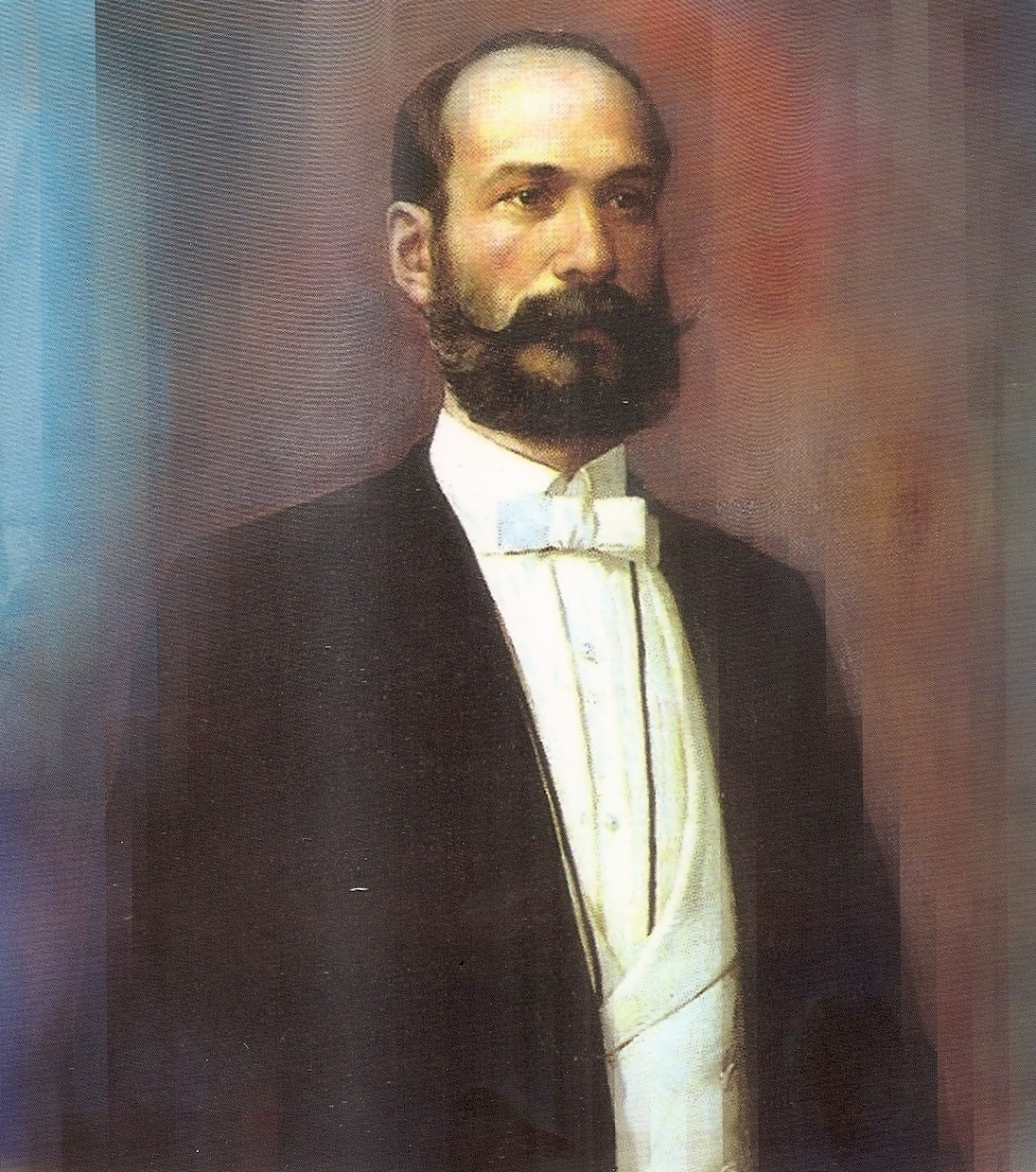 Portrait of Manuel Antonio Matos